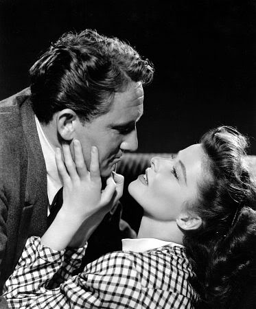 Promotional image of Katharine Hepburn and Spencer Tracy for the 1942 film Woman of the Year. Such images were taken by a studio photographer, and then disseminated to the media and the public to promote the film. (see Film still) Public domain explanation It is unlikely that this image was secured with copyright protection, as stated by film industry experts: "Publicity photos (star headshots) have traditionally not been copyrighted. Since they are disseminated to the public, they are generally considered public domain, and therefore clearance by the studio that produced them is not necessary." — Eve Light Honthaner, The Complete Film Production Handbook, (Focal Press, 2001 p. 211) "According to the old copyright act, such production stills were not automatically copyrighted as part of the film and required separate copyrights as photographic stills ... Most studios have never bothered to copyright these stills because they were happy to see them pass into the public domain, to be used by as many people in as many publications as possible." — Gerald Mast in Film Study and the Copyright Law (1989, p. 87) If there is any chance that the photograph was copyrighted, under the terms of the 1909 Copyright Act it would have had to be renewed 28 years after publication. A search for copyright renewal records of 1970 ([1],[2]) reveal no trace that this occurred.